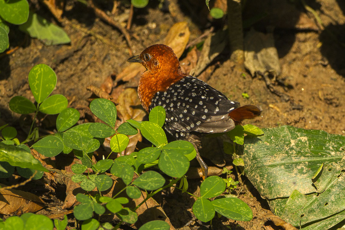 A White-spotted Flufftail (Sarothrura pulchra) near of the Kakum National Park (Ghana)